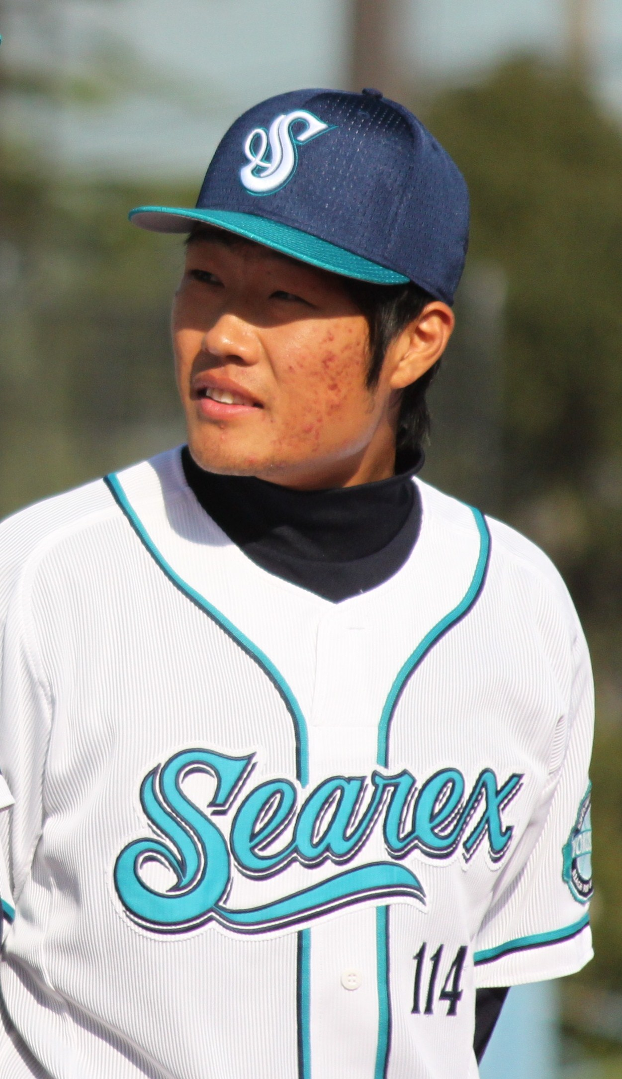 Wang Jingchao, infielder of the Shonan Searex, at Yokosuka Stadium.